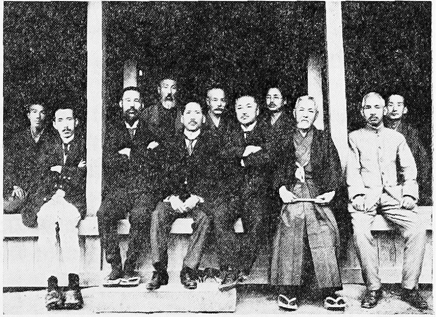 Umetarō Suzuki, Professor of the Faculty of Agriculture, Tokyo Imperial University, and Jisaku Shinoda, Deputy Director-General of the Office of the Yi Dynasty, met Renzaburō Maruo, politician, in Shizuoka Prefecture.